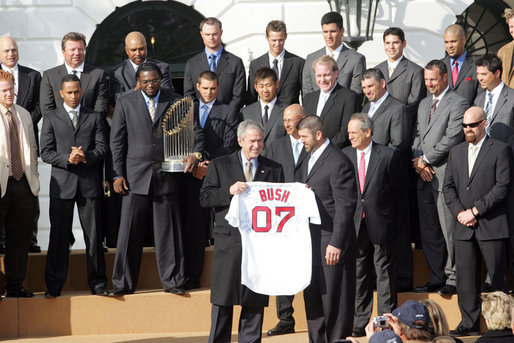 The Boston Red Sox of Major League Baseball (United States) are honored by President George W. Bush following the side's winning the 2007 World Series.